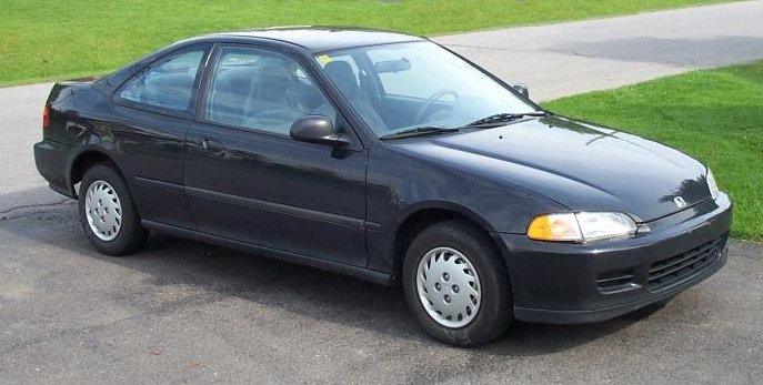 5th-gen Honda Civic Coupé, black (and dirty), probably a North American model photographed on location Original photograph modified using GIMP (cropped, removed distracting background details, some touch-ups)